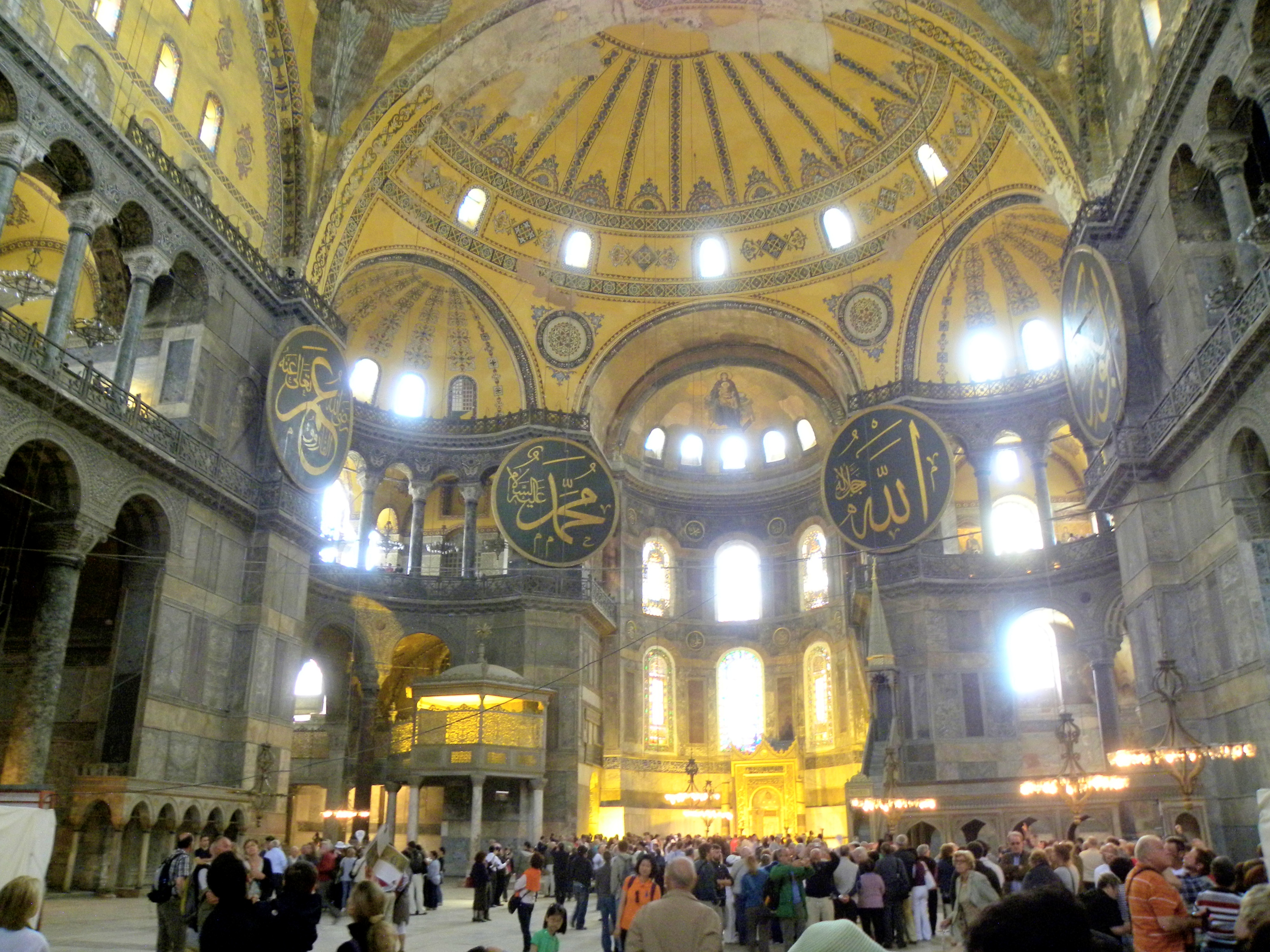 Interior of the Church of Hagia Sophia, Istanbul. After the 14th century conquest of Constantinople by the turkish armies, the church was converted to a mosque. The four large disks bearing Arabic caligraphy are part of the Muslim changes that were made to the interior decoration.